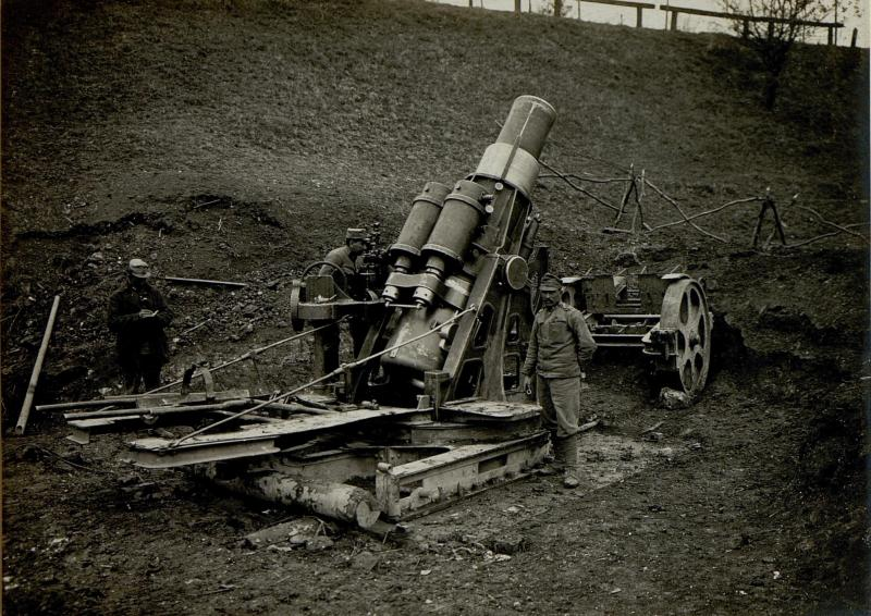 Brzeżany in 1916